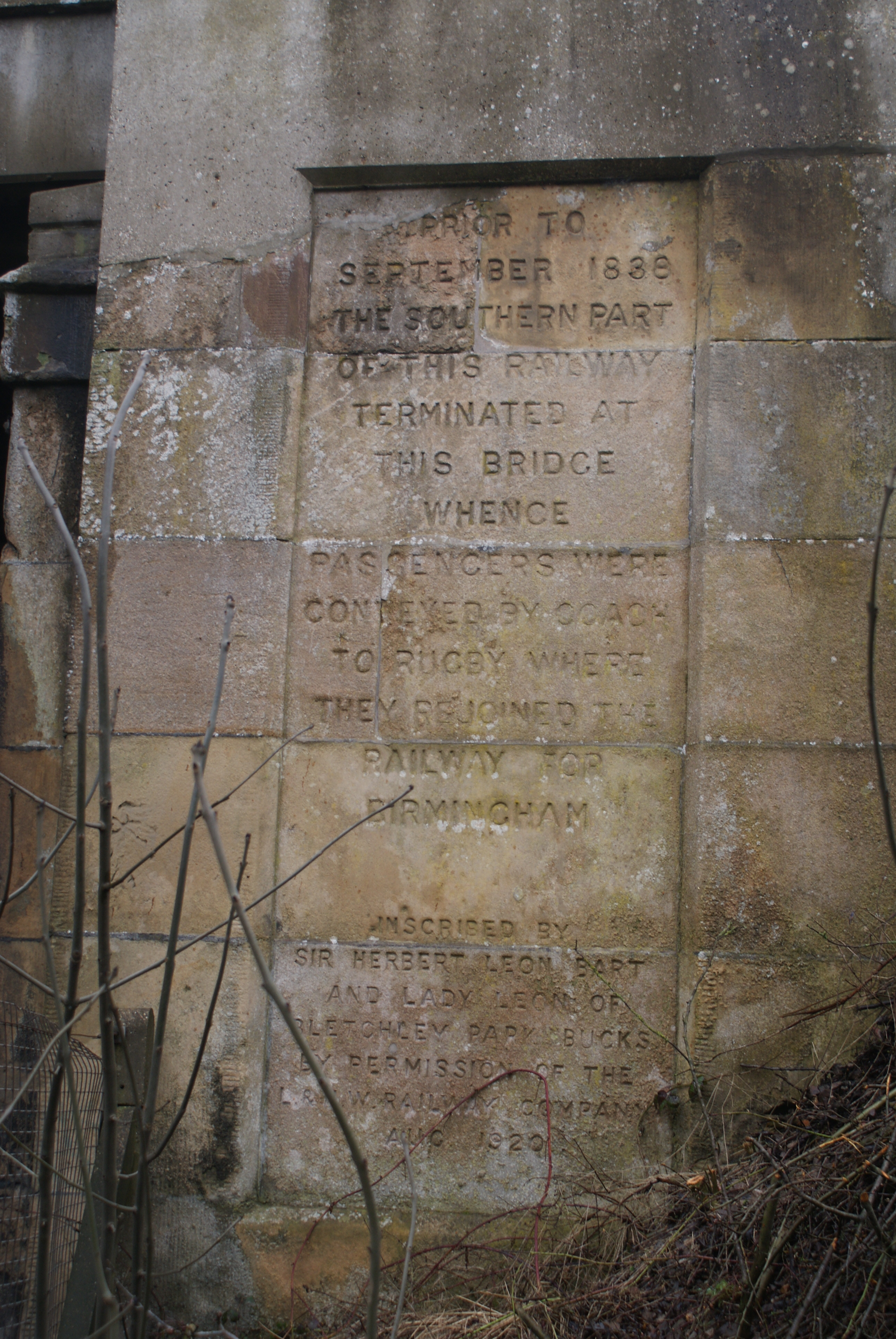 Inscription on Denbigh Hall bridge, commemorating the former Denbigh Hall railway station.